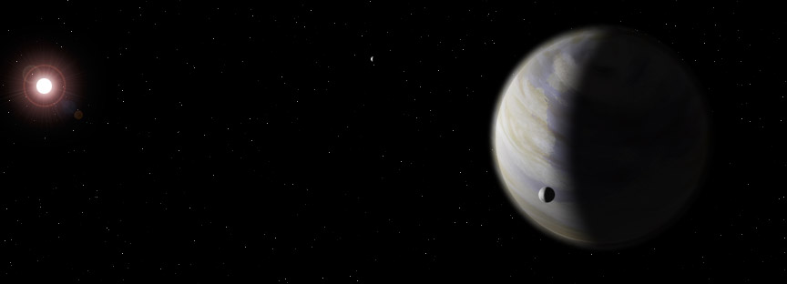 illustration by me (user debivort July 07)